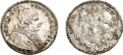 Italy, Papal States. Benedictus XIV (Prospero Lambertini). 1740-1758. AR Scudo (26.40 g, 12h). Dated 1753, RY 14. Otto Hamerani, sculptor. BENED • XIV • PONT • MAX • AN • XIV, bust right wearing cap and stole; O HAMERANI below MDCCLIII, personification of the Church seated with clouds, holding keys and pointing to an aedicula; Bonaccorsi arms to right. (bishop Simone Buonaccorsi, later cardinal, president of Rome mint) Leaved edge. EF, mottled toning.